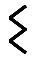 runic letter sowilo, earlier variant